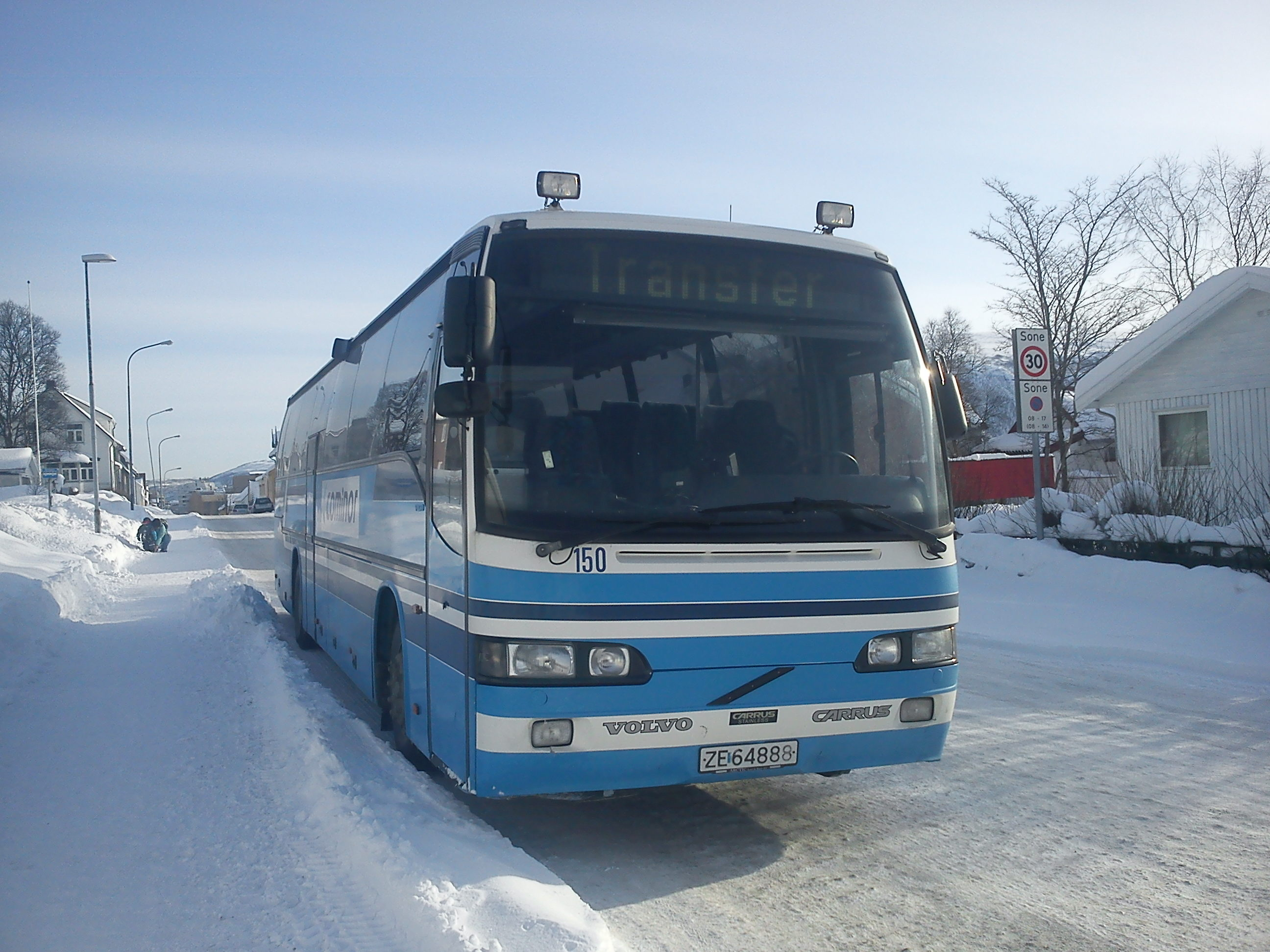 Volvo Carrus owned by Cominor